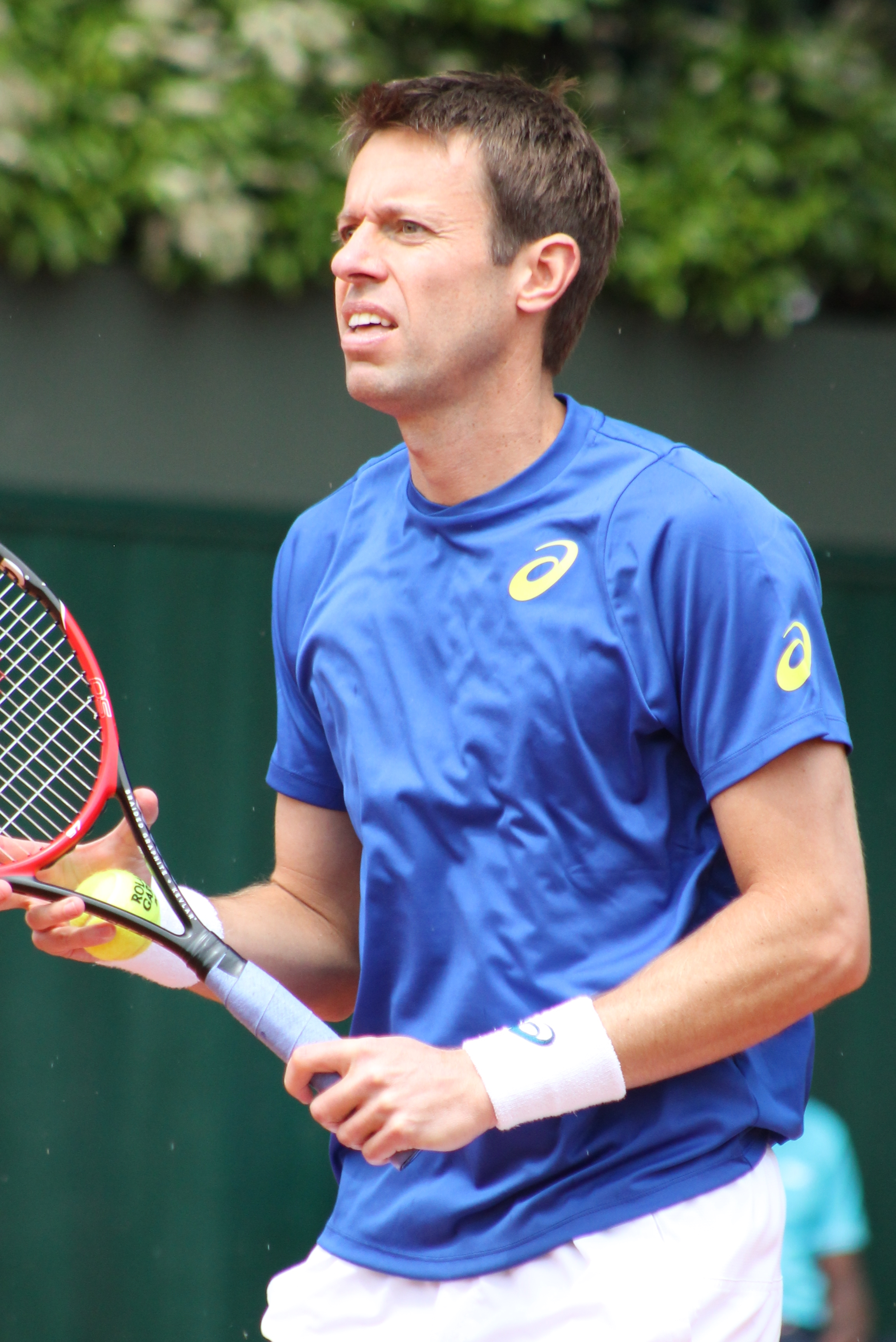 Nestor RG16 (5)